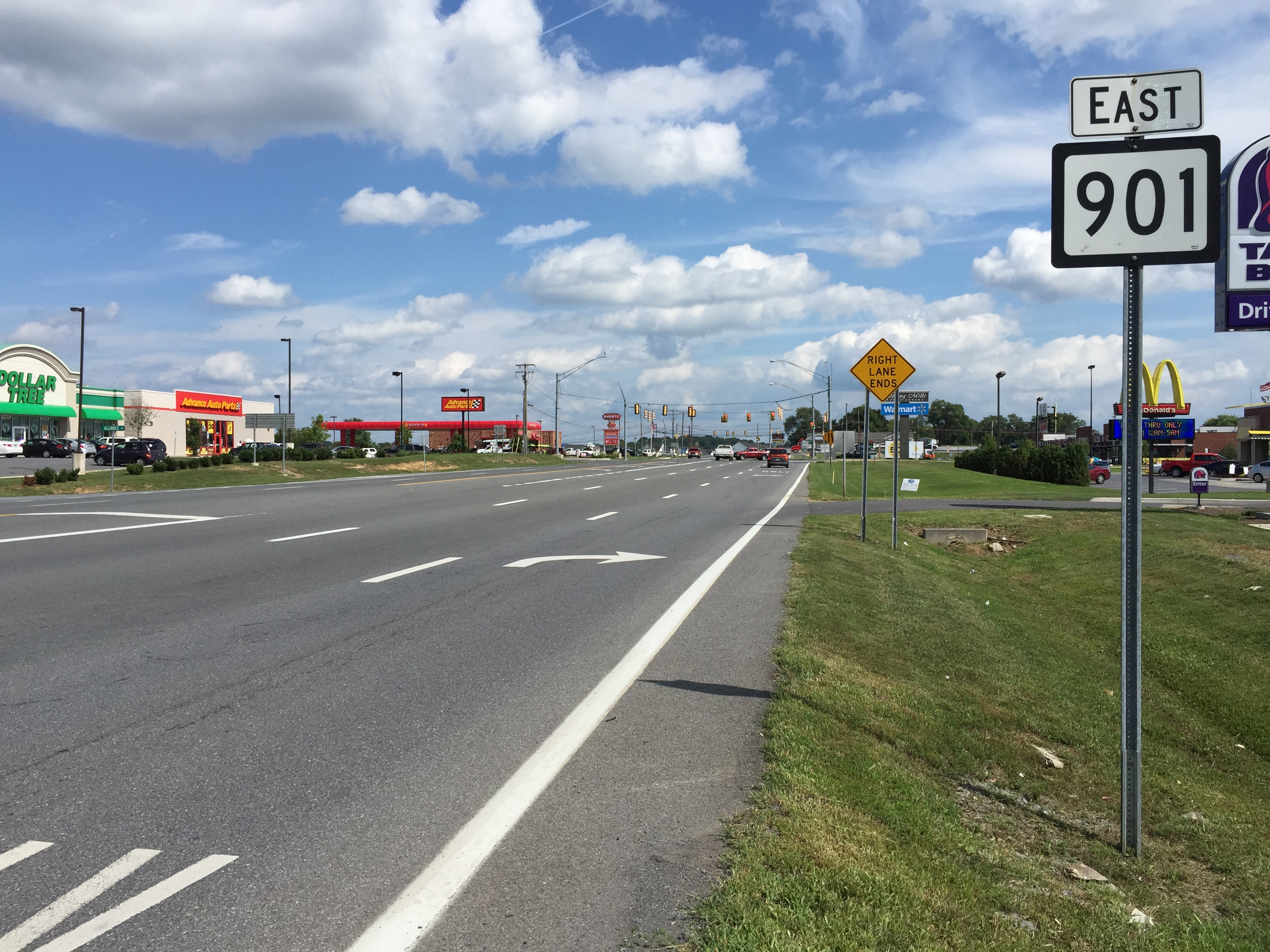 View east along West Virginia State Route 901 (Hammonds Mill Road) between Interstate 81 and Alliance Lane in Nipetown, Berkeley County, West Virginia